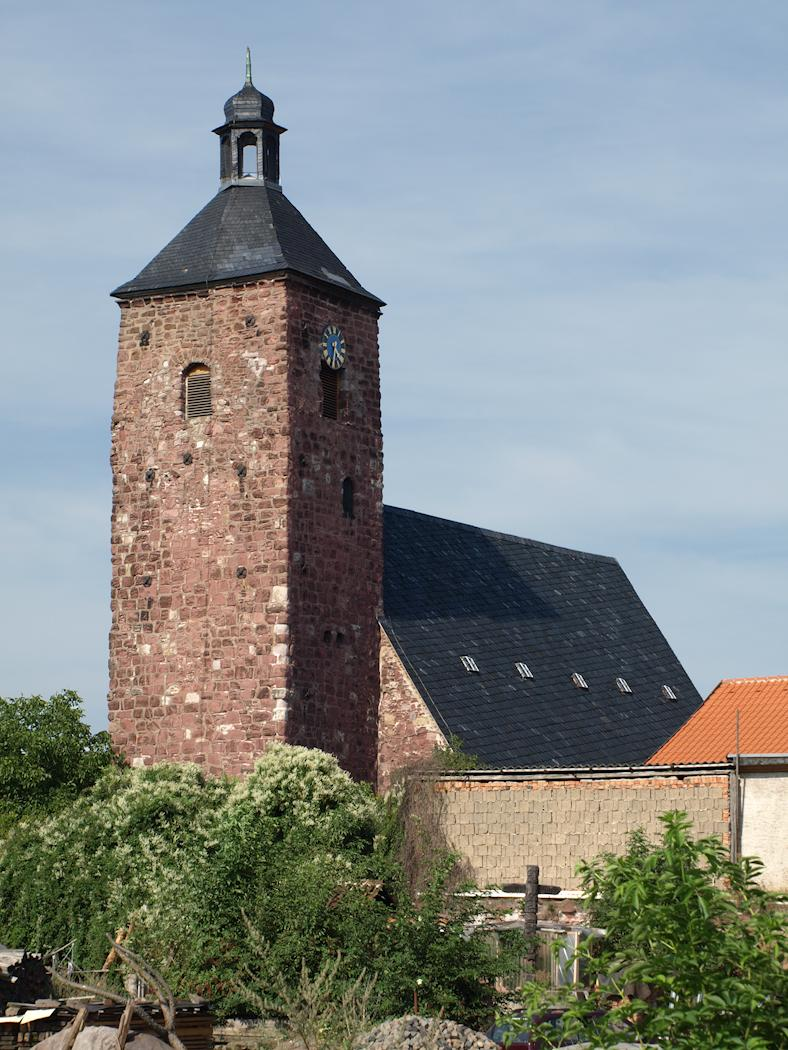 Kelbra , (Saxony-Anhalt , Germany), St. Georgii-church , photo 2009